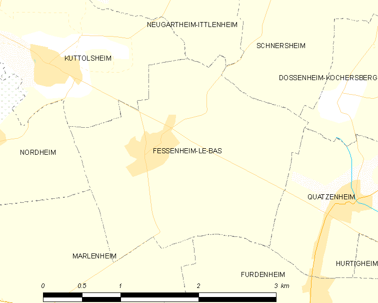 Map of French municipality